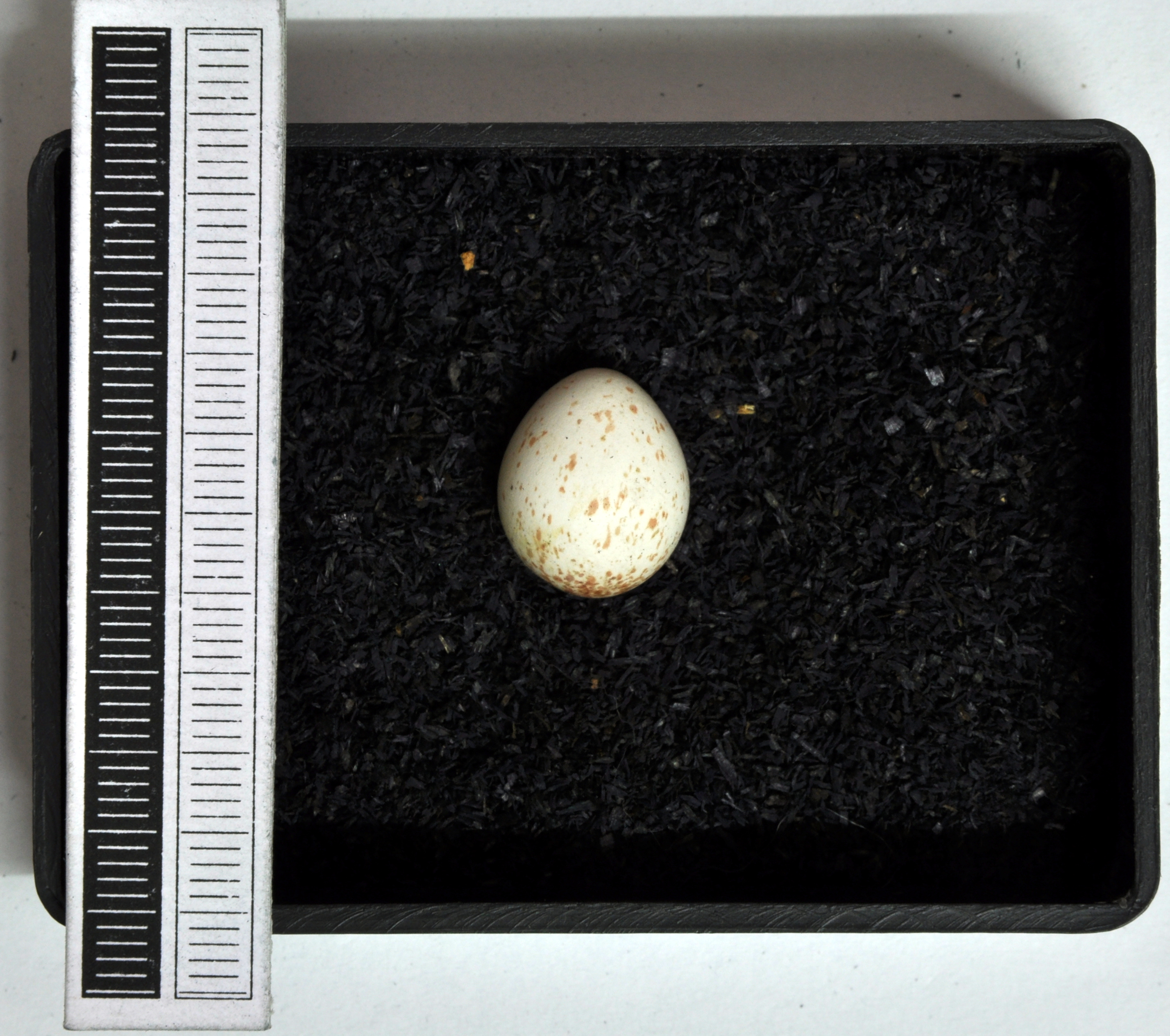 Willow warbler Phylloscopus trochilus, egg, Coll. Museum Wiesbaden, Origin: Åmål, Sweden, 14.07.1962, leg. W. Abelmann